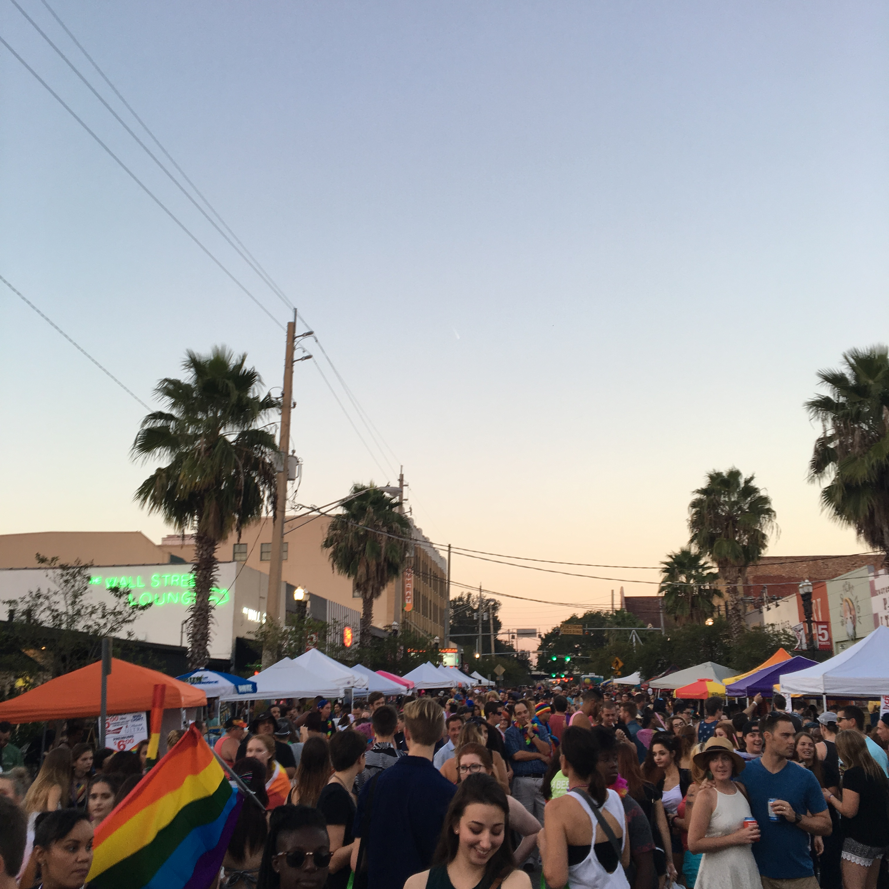 Jacksonville Gay Pride celebration in the 5-Points area.